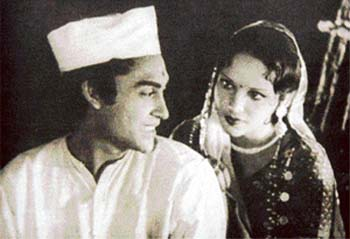 Devika Rani and Ashok Kumar in a scene from the 1936 film Achhut Kanya (aka Achhoot Kanya).